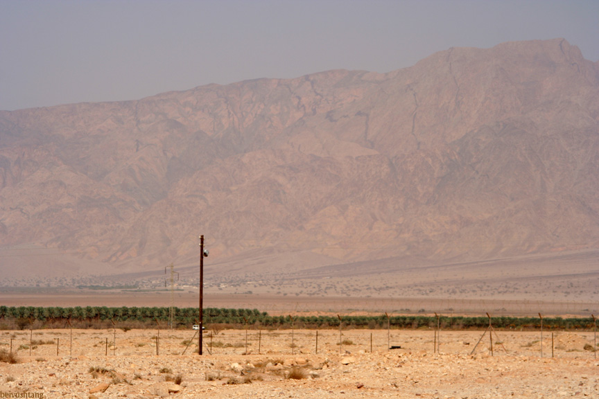 Arava Beivushtang 08:46, 16 November 2006 (UTC)